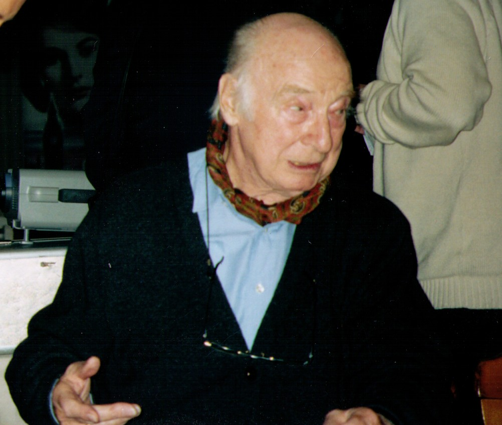 Actor Alf Marholm at an Edgar Wallace convention in Titisee-Neustadt, Germany